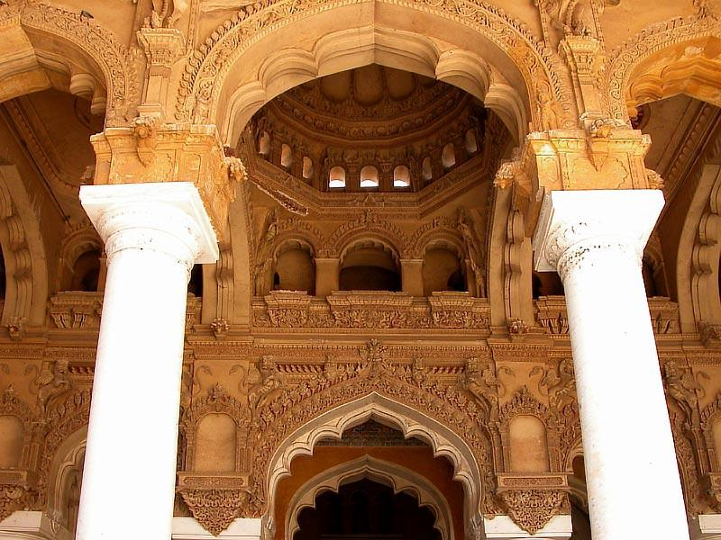 Excellent Architecture and Magnificent perspective of Nayak King's Palace.